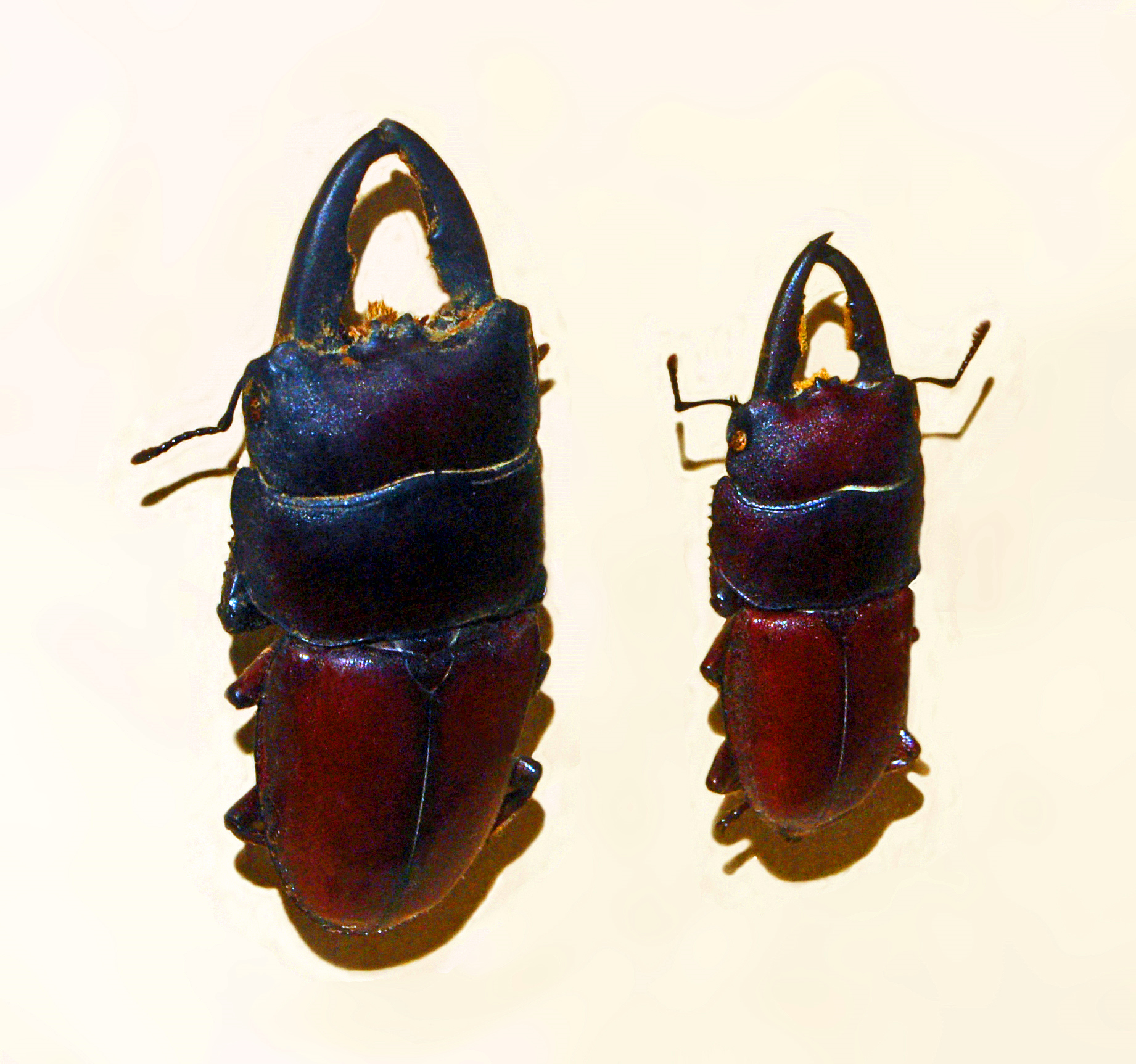 Dorcus taurus gypaetus from Java.